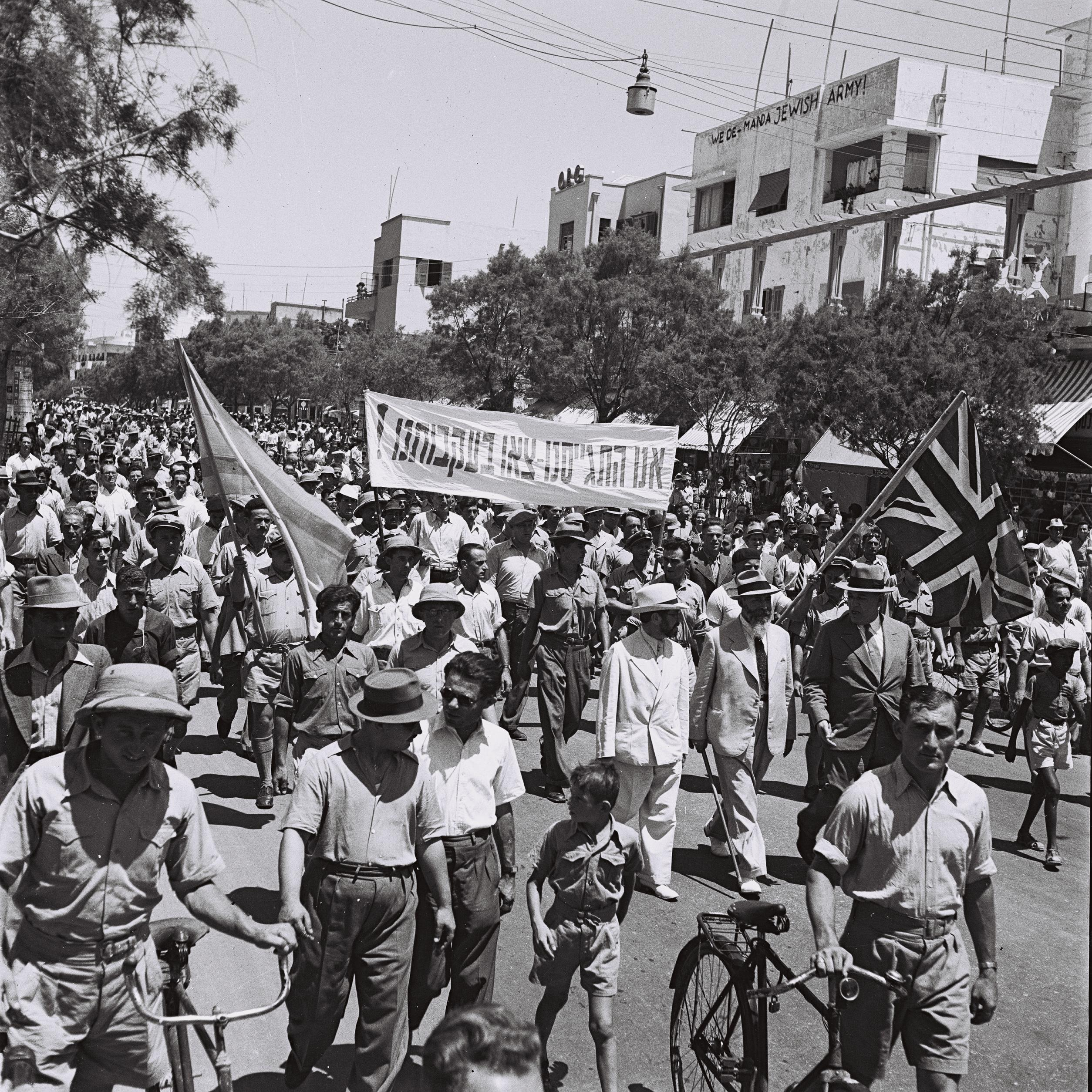 Volunteers marching on Allenby street in Tel Aviv in favor of enlistment into the British army. מתנדבים צועדים ברחוב אלנבי בתל אביב ומפגינים בעד ההתגייסות לצבא הבריטי Photo: Zoltan Kluger (1896–1977) Alternative names Qlwger, Zwlṭan; Zolṭan Ḳluger; Kluger, Z.; W. von Szigethy; W. Von SzighethyDescriptionHungarian-Israeli photographerDate of birth/death 8 February 1896 16 May 1977Location of birth/death Kecskemét ManhattanAuthority control : Q7035699 VIAF: 19504001 ISNI: 0000 0000 6686 1613 ULAN: 500483392 LCCN: no2008144265 Open Library: OL6614008A WorldCat creator QS:P170,Q7035699 , 07/13/1940